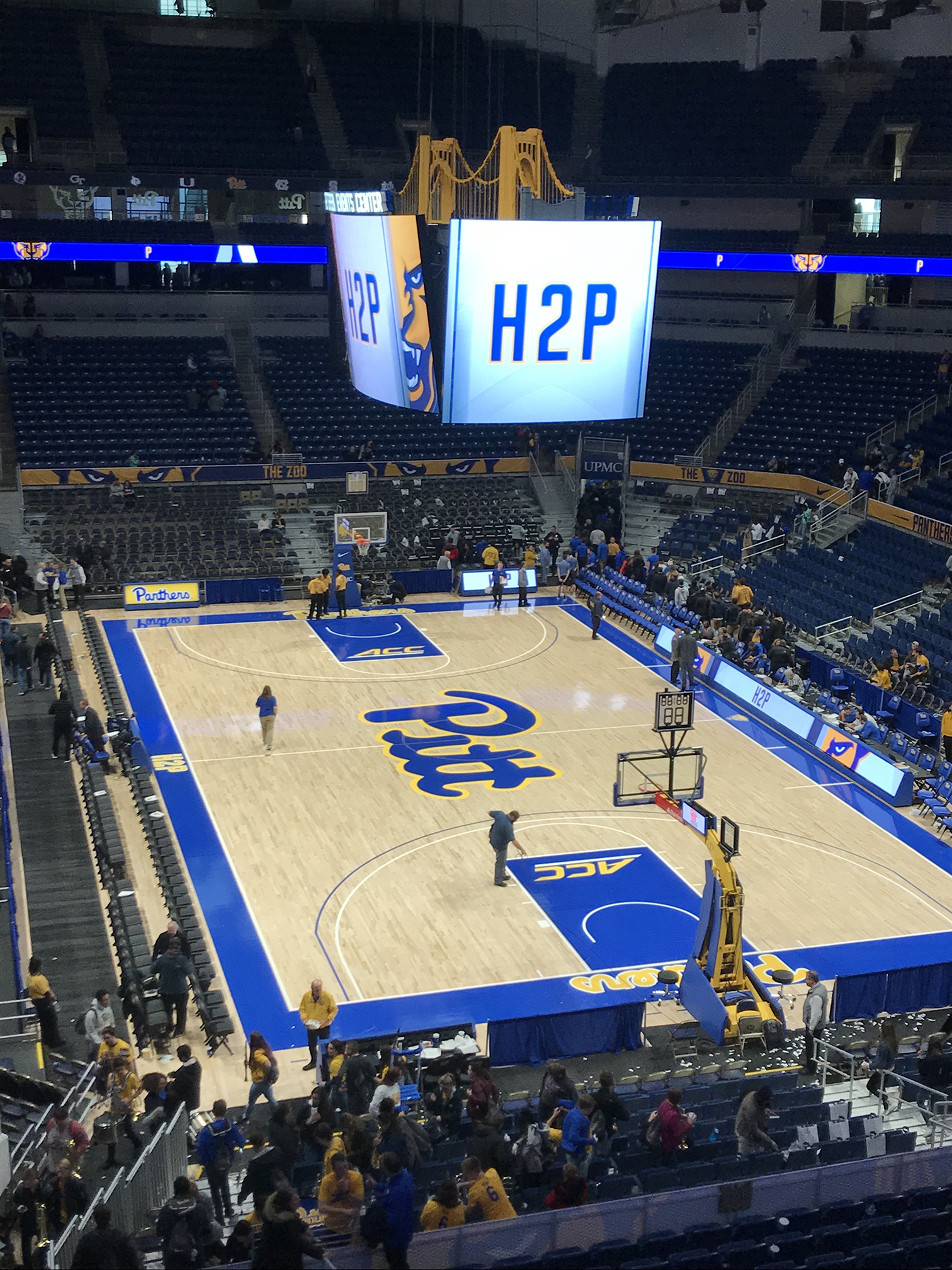 Petersen Events Center, University of Pittsburgh in Nov, 2019